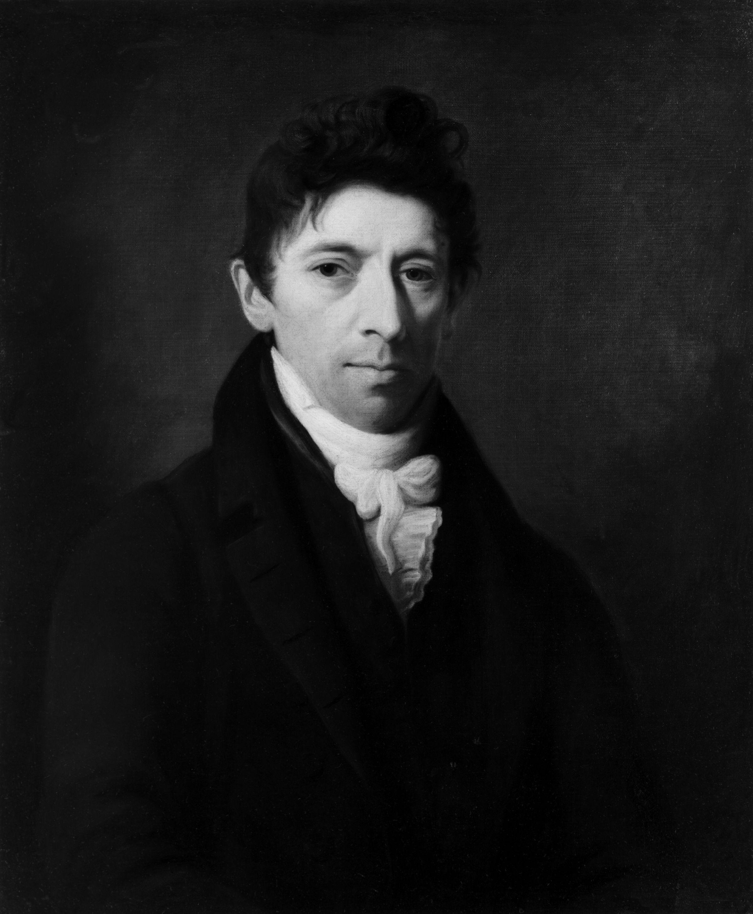 John Thelwall, by John Hazlitt (died 1830). All images in this batch have been confirmed as author died before 1939 according to the official death date listed by the NPG.